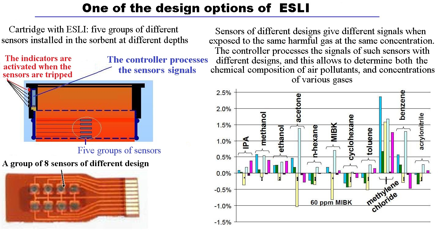 The diagram shows the design and the work of promising active End of Service Life Indicator for cartridges (ESLI), which detects the chemical composition of gaseous air contaminants and the concentration of gases and vapors by processing the signals of different sensors with the controller.